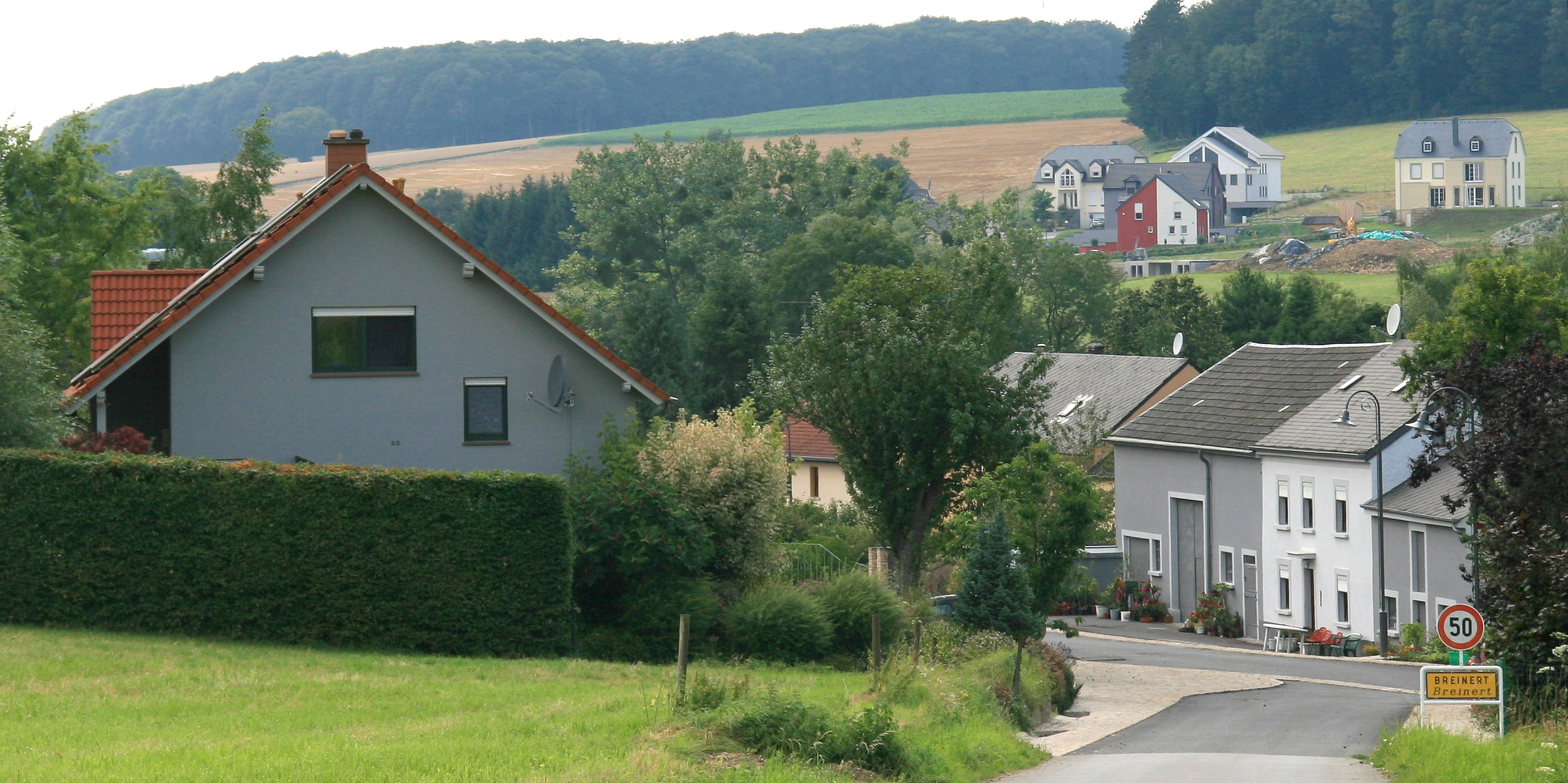 The village of Breinert in Luxembourg.